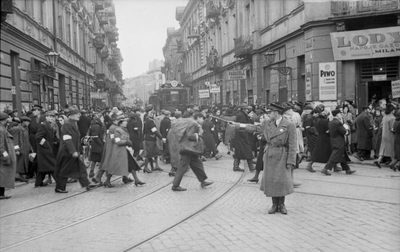 Warsaw Ghetto: Karmelicka Street viewed from corner of Leszno Streets. On the left Karmelicka 1 / Leszno 30 building, and on the right Karmelicka 2 / Leszno 28 building.